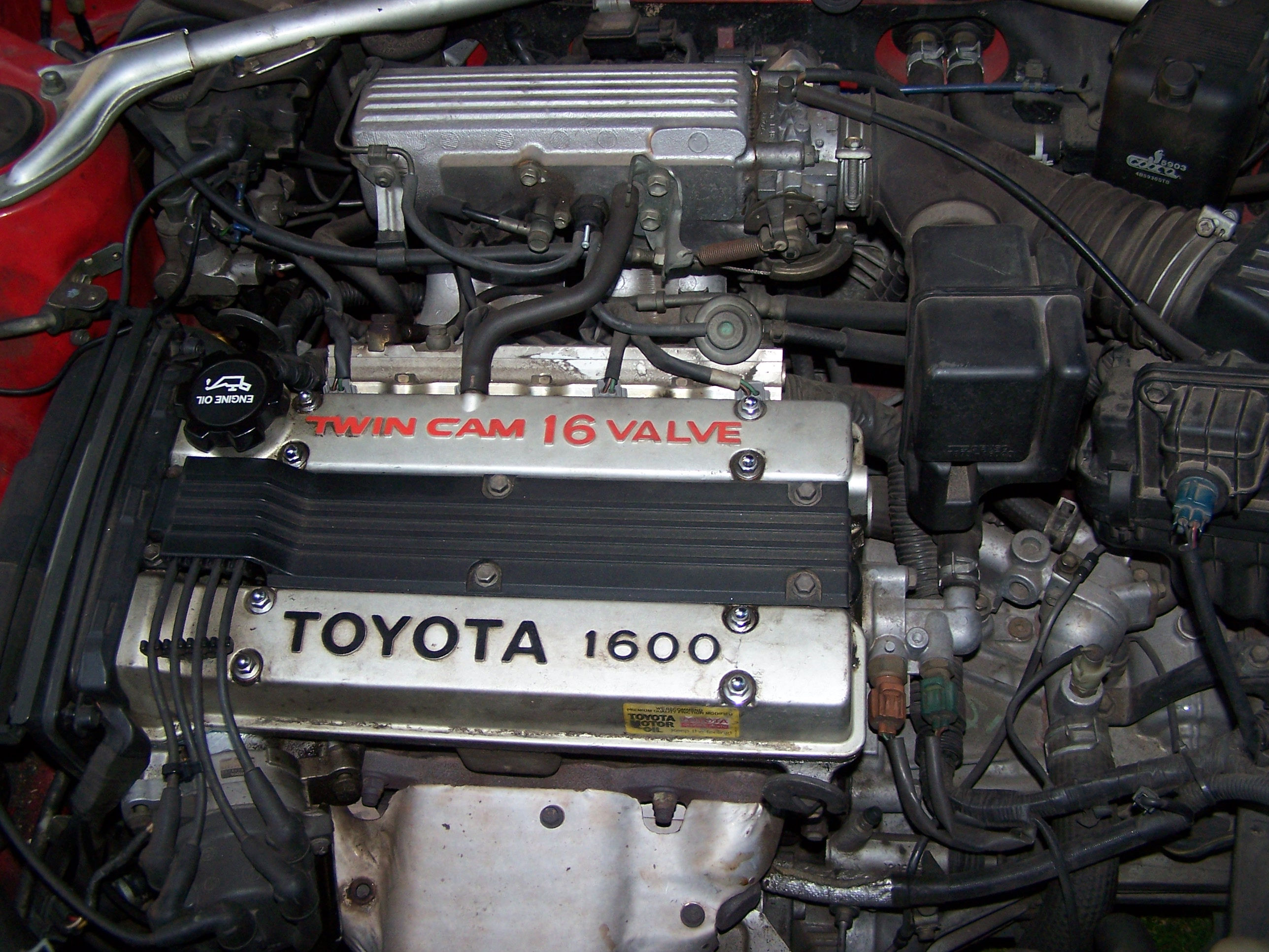 This is the 4A-GE "redtop" or "High Horse" engine from my 1990 Toyota Seca. This engine produces 103 kW @ 6600 rpm.